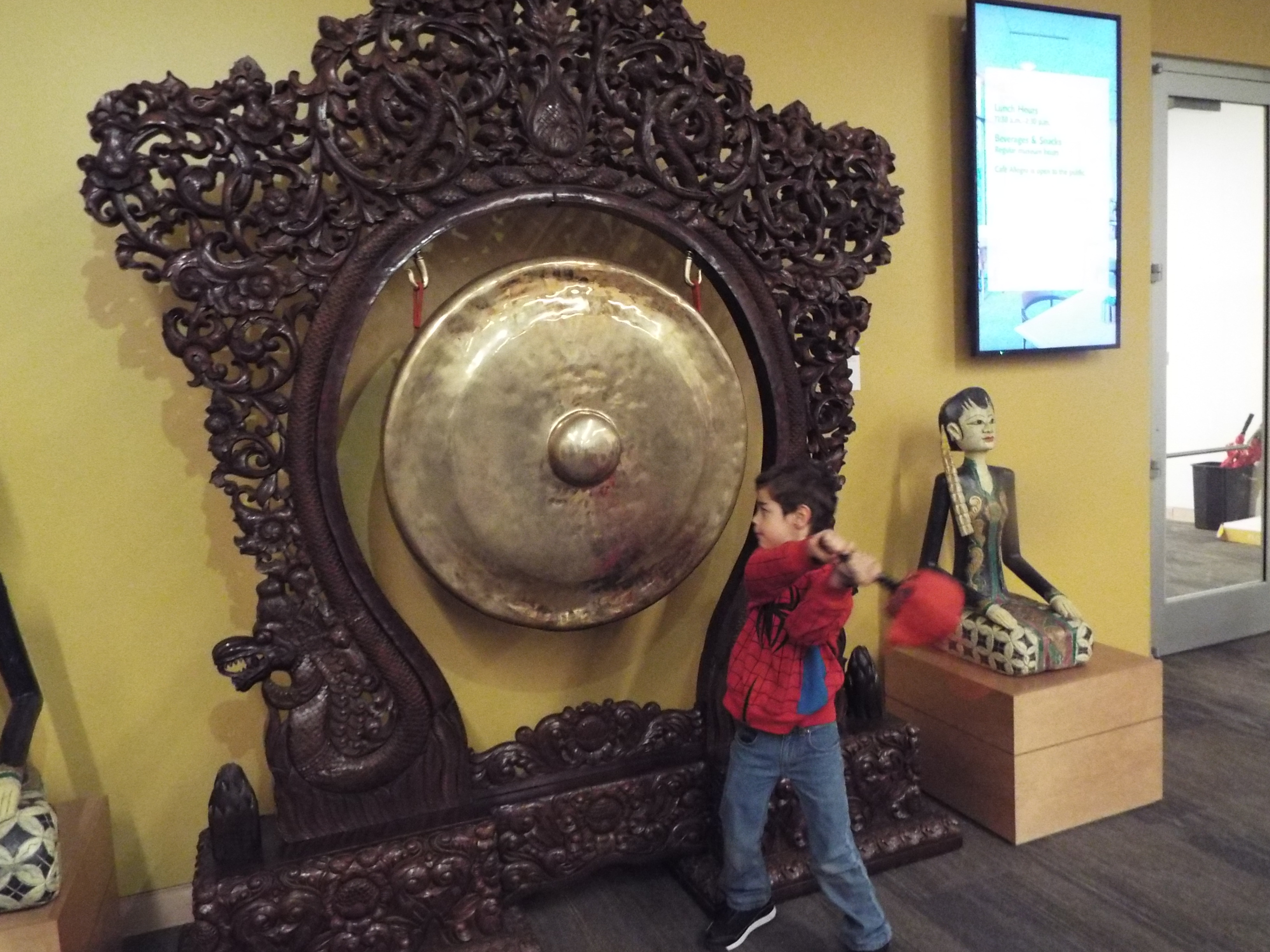 Grandson of Tony Santiago try's out a Gong in the Experience Gallery of the Musical Instrument Museum of Phoenix.